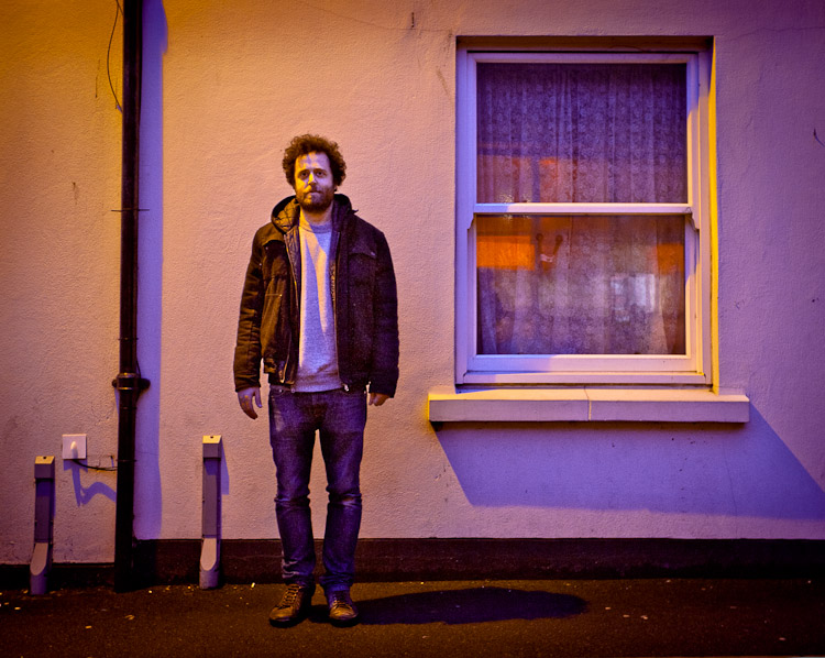 Noah Kalina phtogrpahed by Heather Buckley